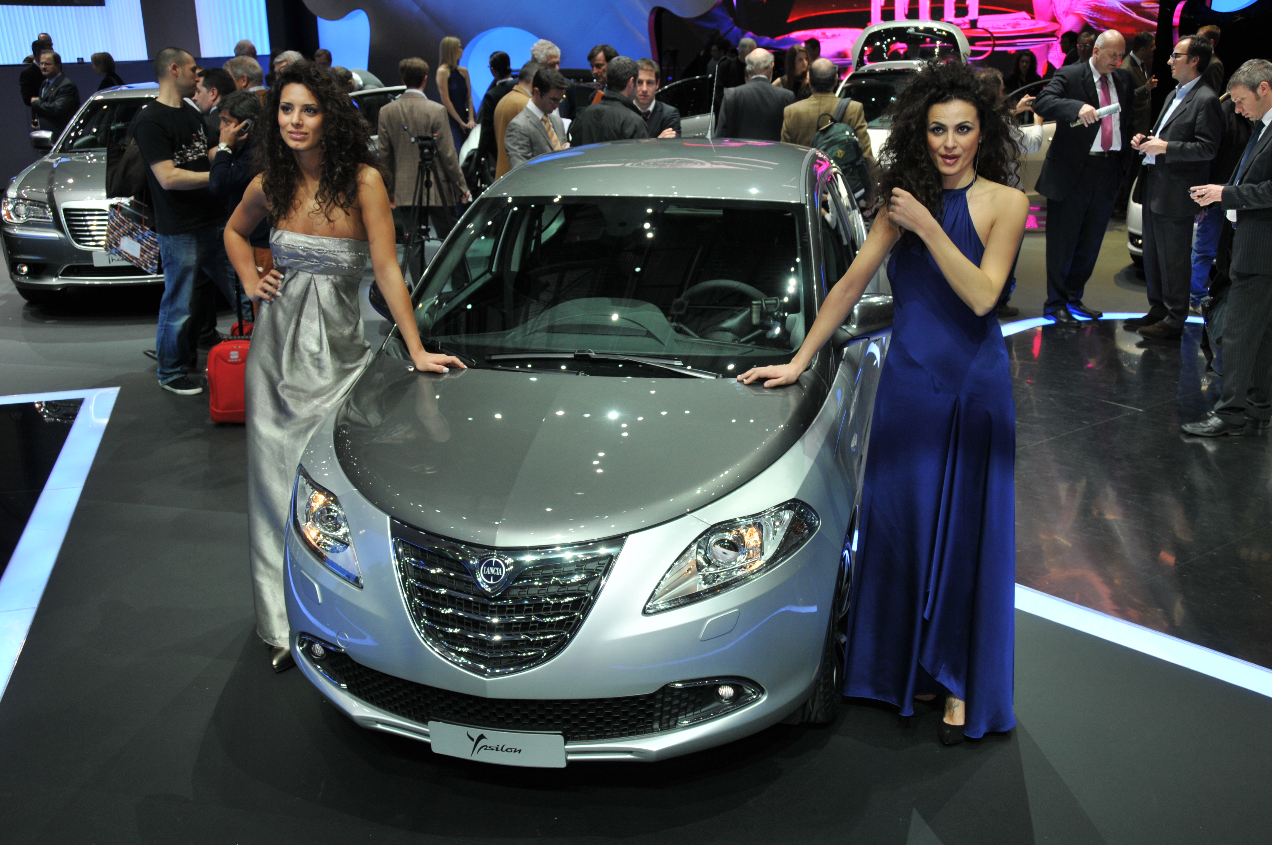 Lancia Ypsilon at the 2011 Geneva Motor Show.